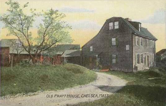 Old Pratt House, Chelsea, MA; from a 1908 postcard. Built about 1660, it was torn down in 1953.